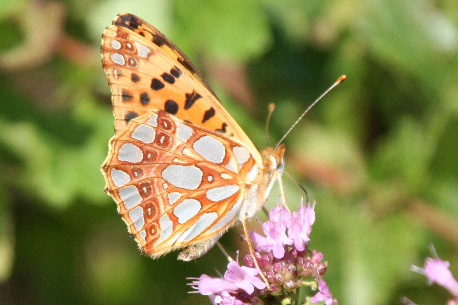 A Queen of Spain Fritillary butterfly (Issoria lathonia) on Oregano (Origanum vulgare), photographed in Wertheim-Bronnbach